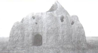 Назар тамы